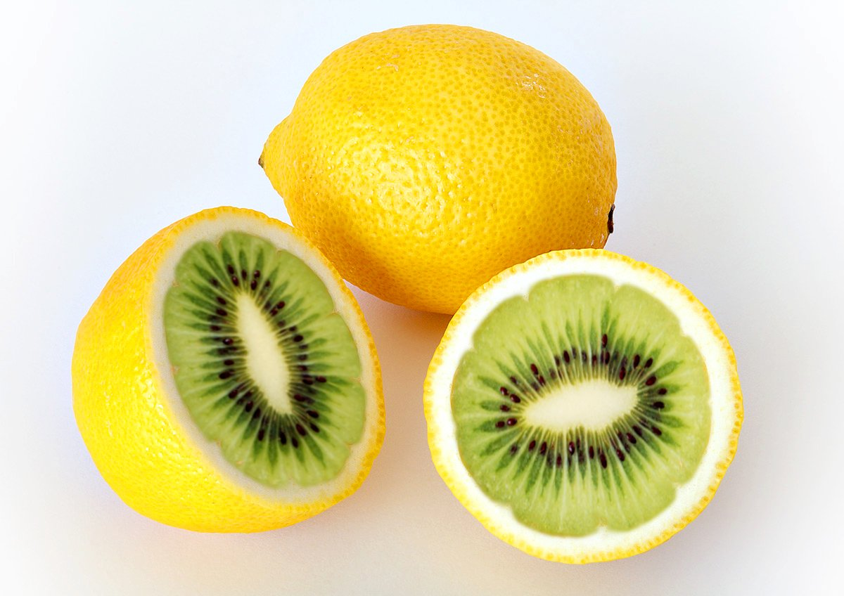 Meine Kitrone, oder eine Zitriwi?!? This is a retouched picture, which means that it has been digitally altered from its original version. Modifications: Two different image combined. Modifications made by Manuel Strehl.